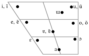 IPA vowel chart for European Portuguese.